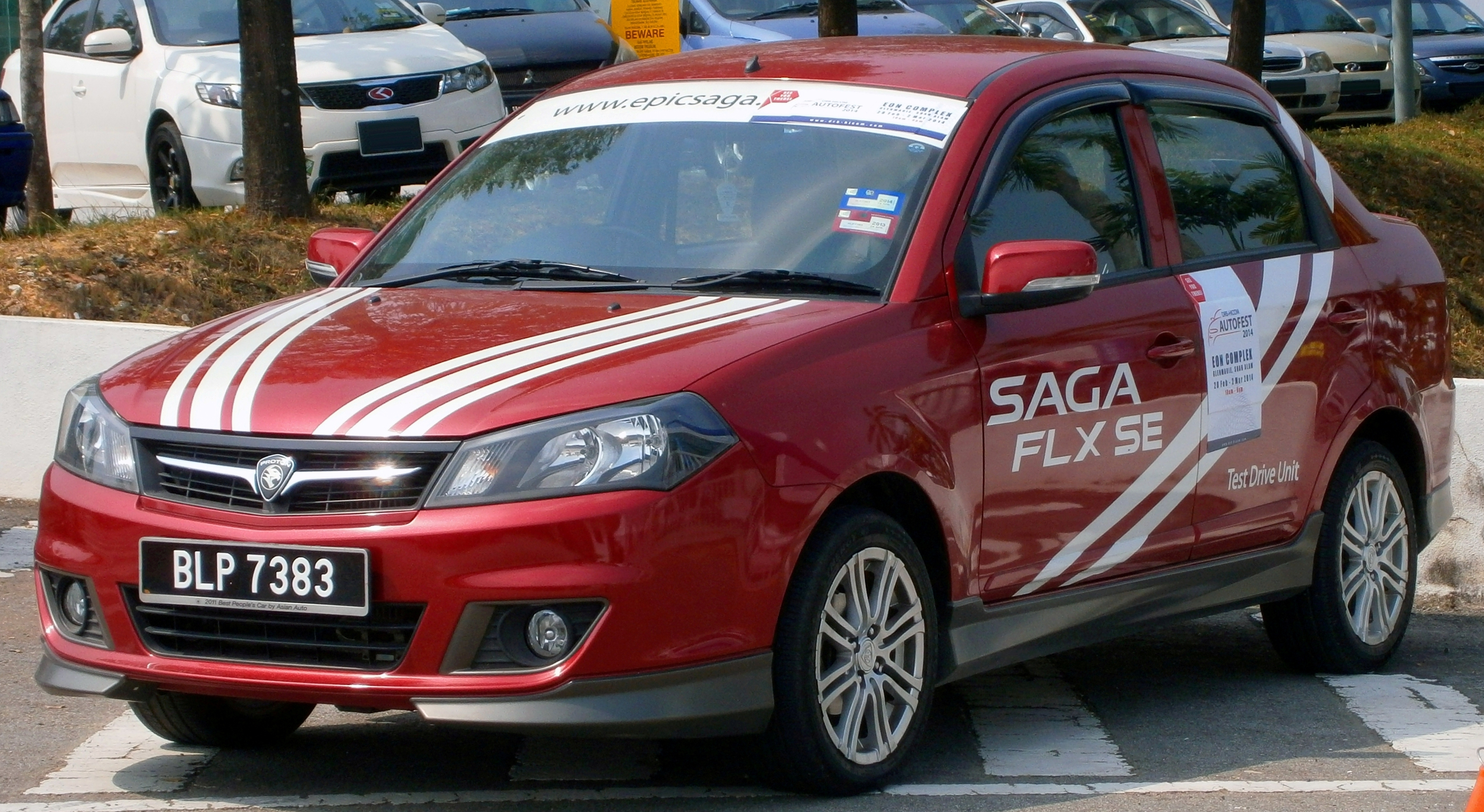 2011 Proton Saga FLX SE (Test Drive Car) in Glenmarie, Malaysia. Colour : Fire Red Designed & Assembled in Malaysia